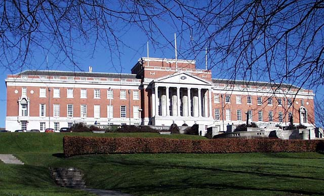 Town Hall, Rose Hill, Chesterfield, Derbyshire